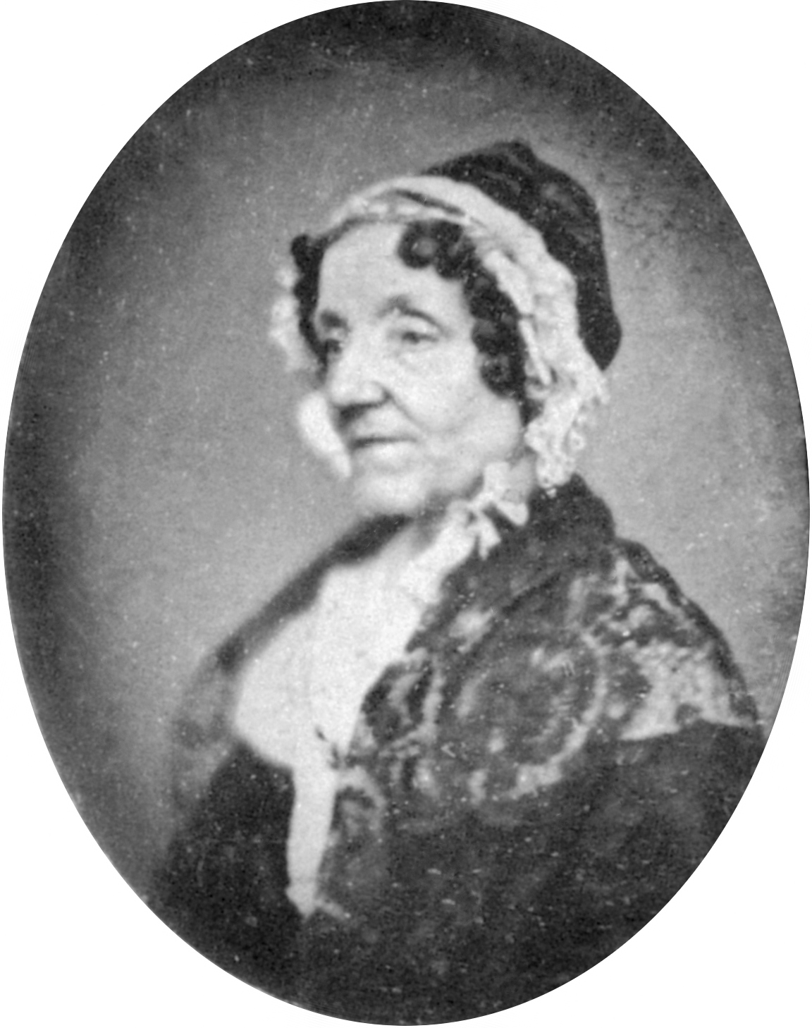 Maria Edgeworth (1768-1849). Daguerreotype, 54 x 44mm (2 1/8 x 1 3/4").